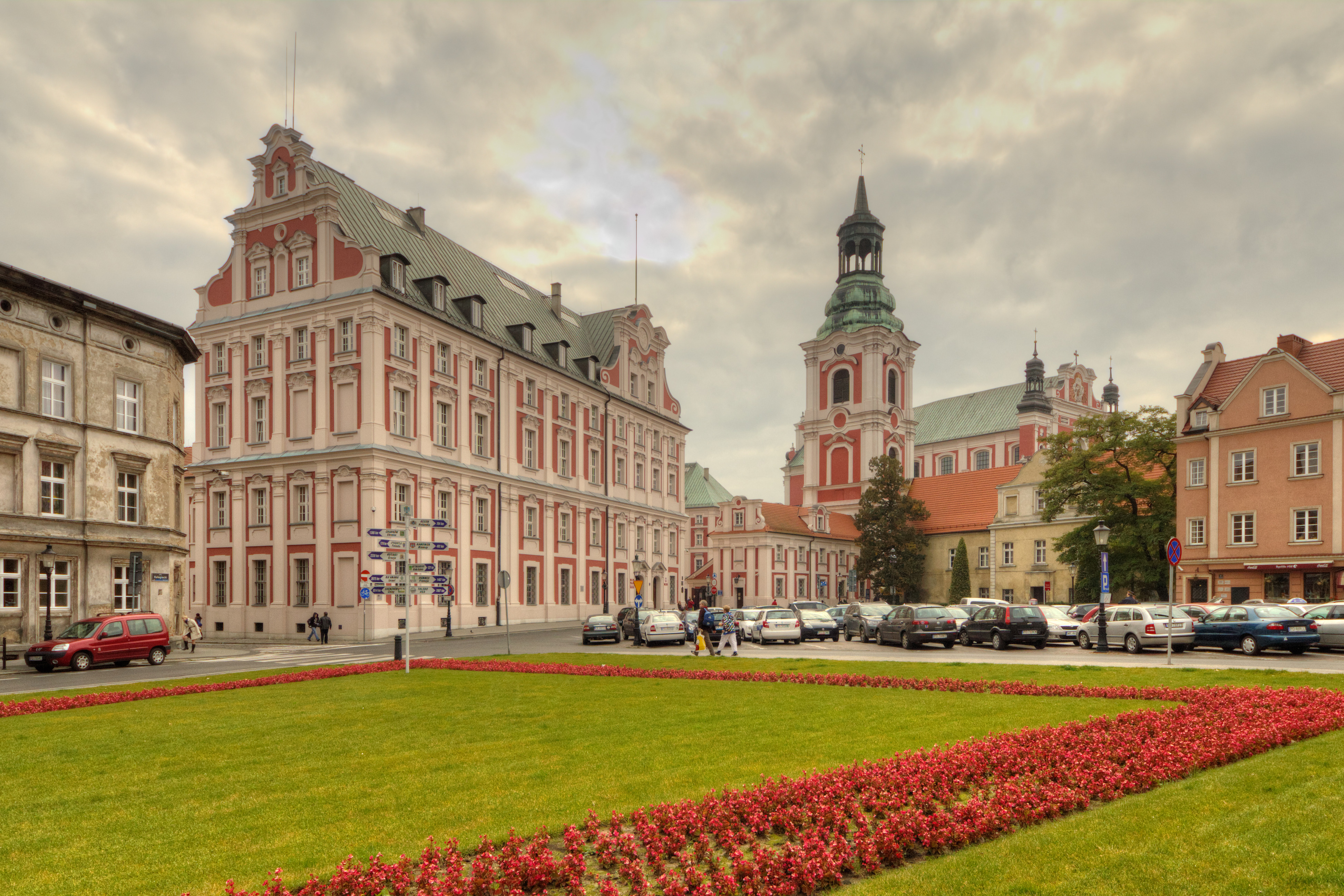 The former Jesuit College in Poznań, Greater Poland